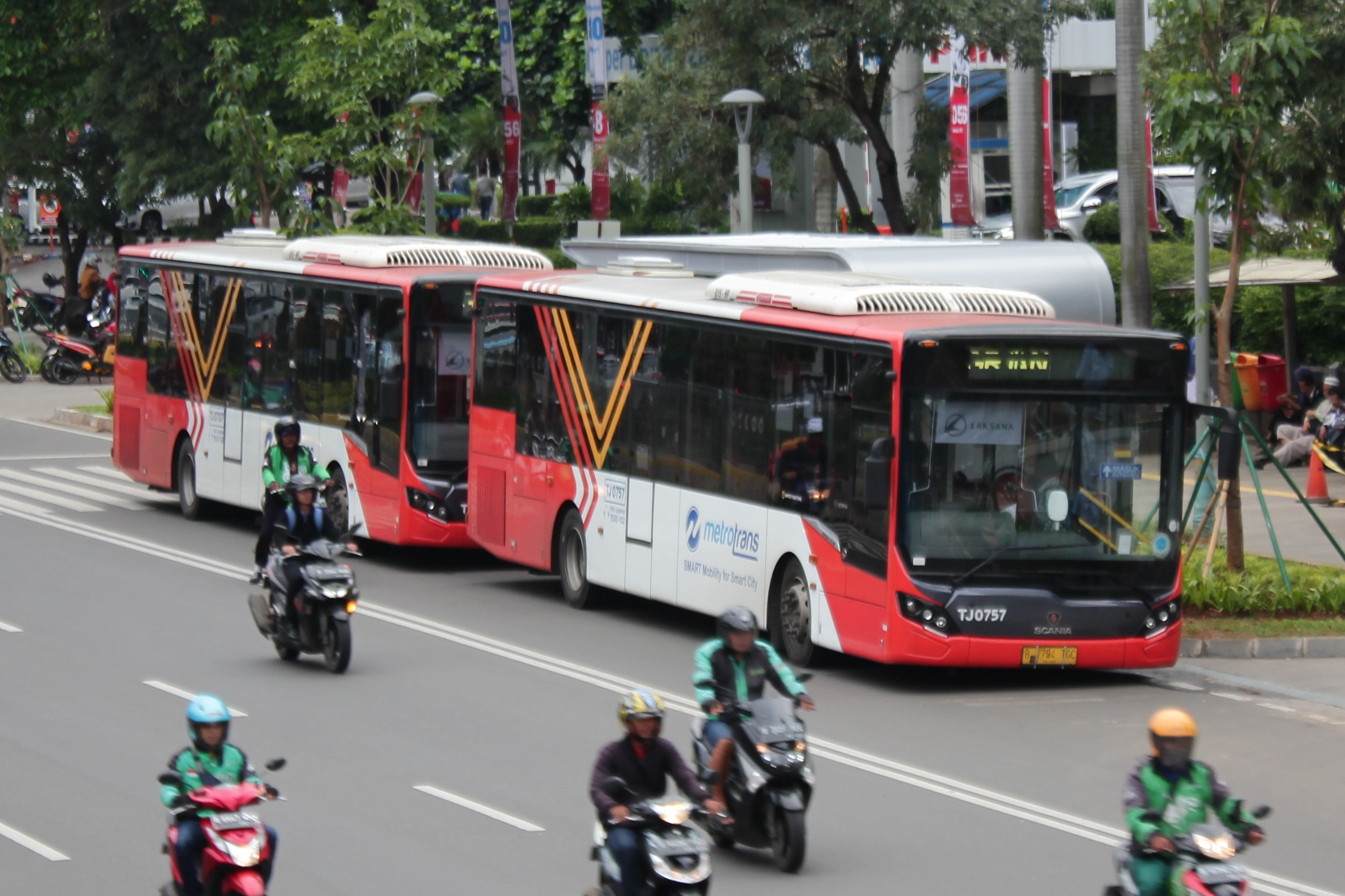 MetroTrans PT. Transportasi Jakarta GR1| Harmoni - Bundaran Senayan Cityline 2 by Laksana Scania K250UB . Loc : Senayan